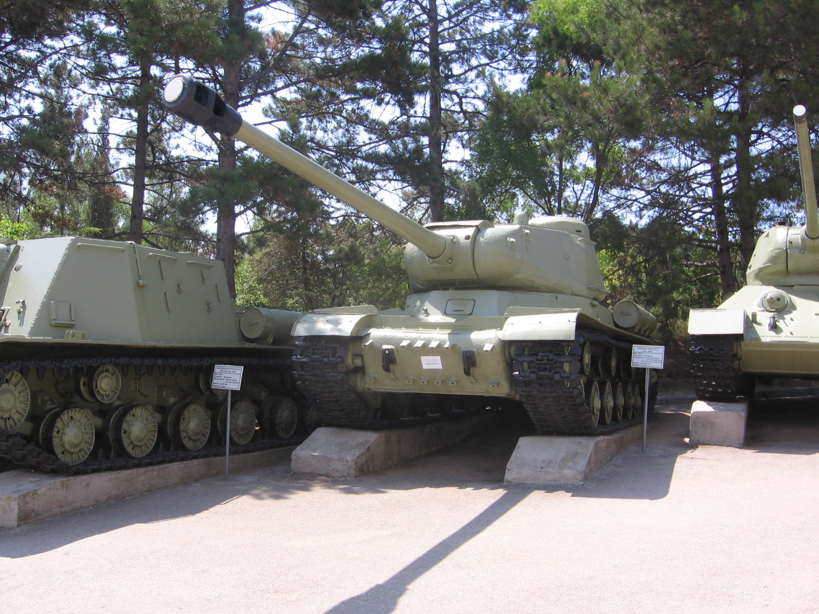 Soviet IS-2 Model 1943, since 1960 displayed at the Museum of Heroic Defense and Liberation of Sevastopol on Sapun Mountain in Sevastopol.